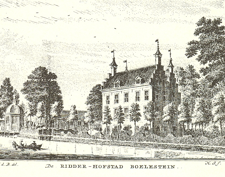 Drawing of castle Bolenstein, Utrecht (province), The Netherlands, 1745 - 1747.